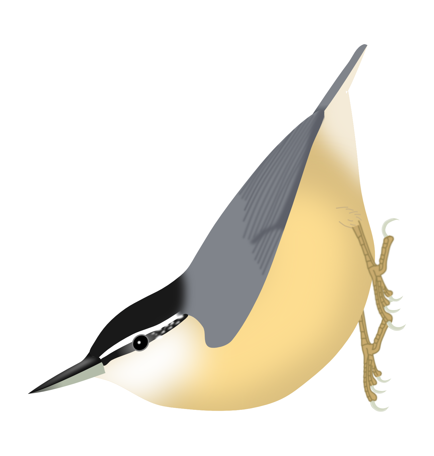 Sitta villosa